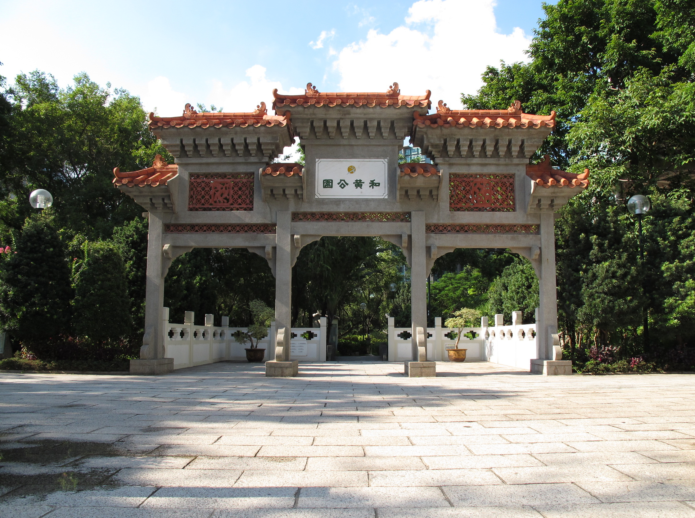 Hutchison Park Entrance Gate